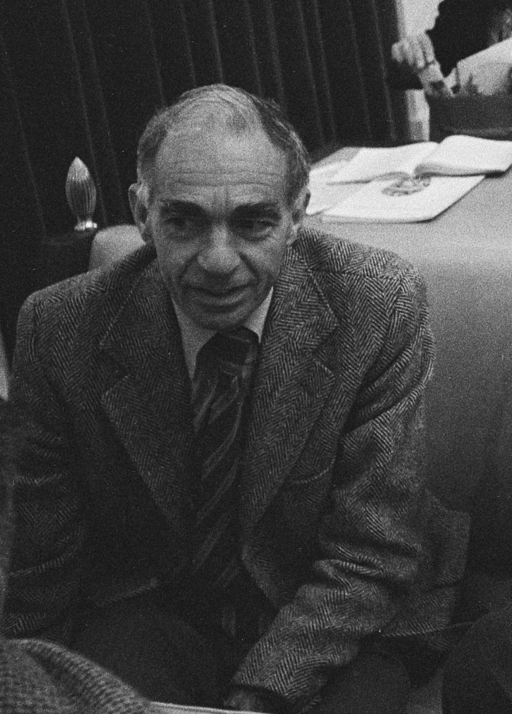 Voortzetting proces in hoger beroep amatateurarcheoloog Tjerk Vermaning in Leeuw, Bestanddeelnr 930-0234